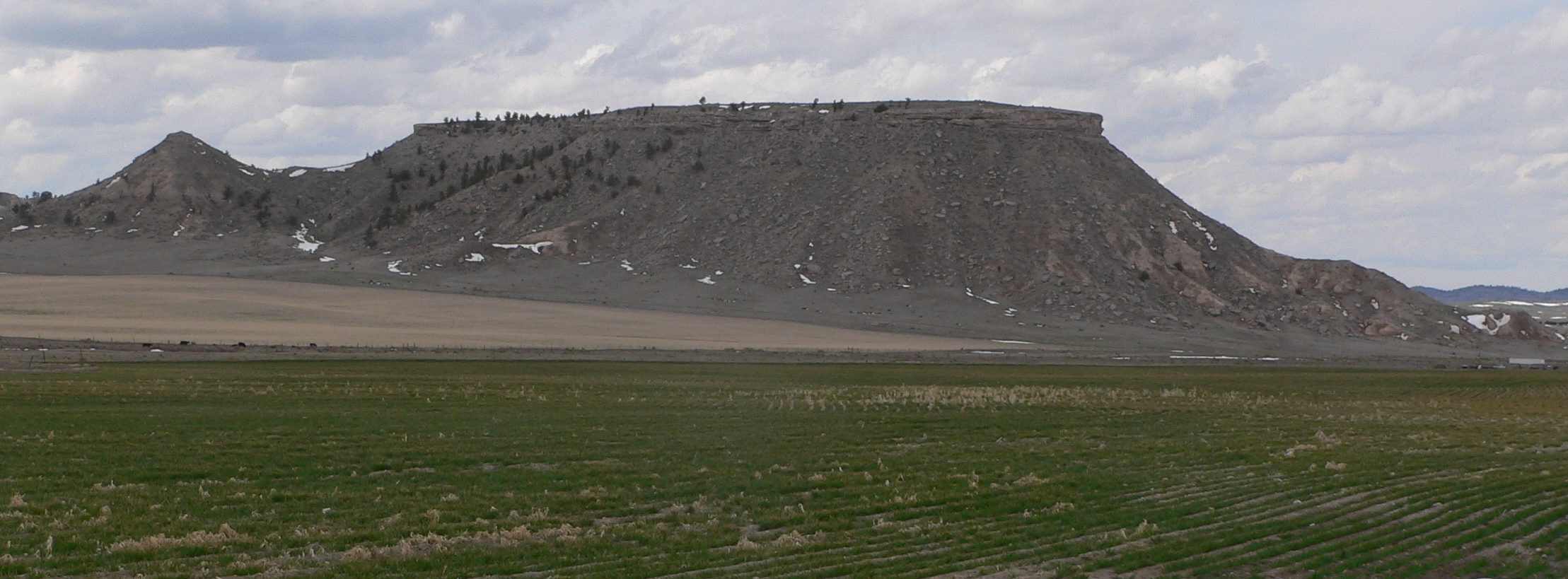 Bighorn Mountain, located in east central Banner County, Nebraska; seen from the southeast.